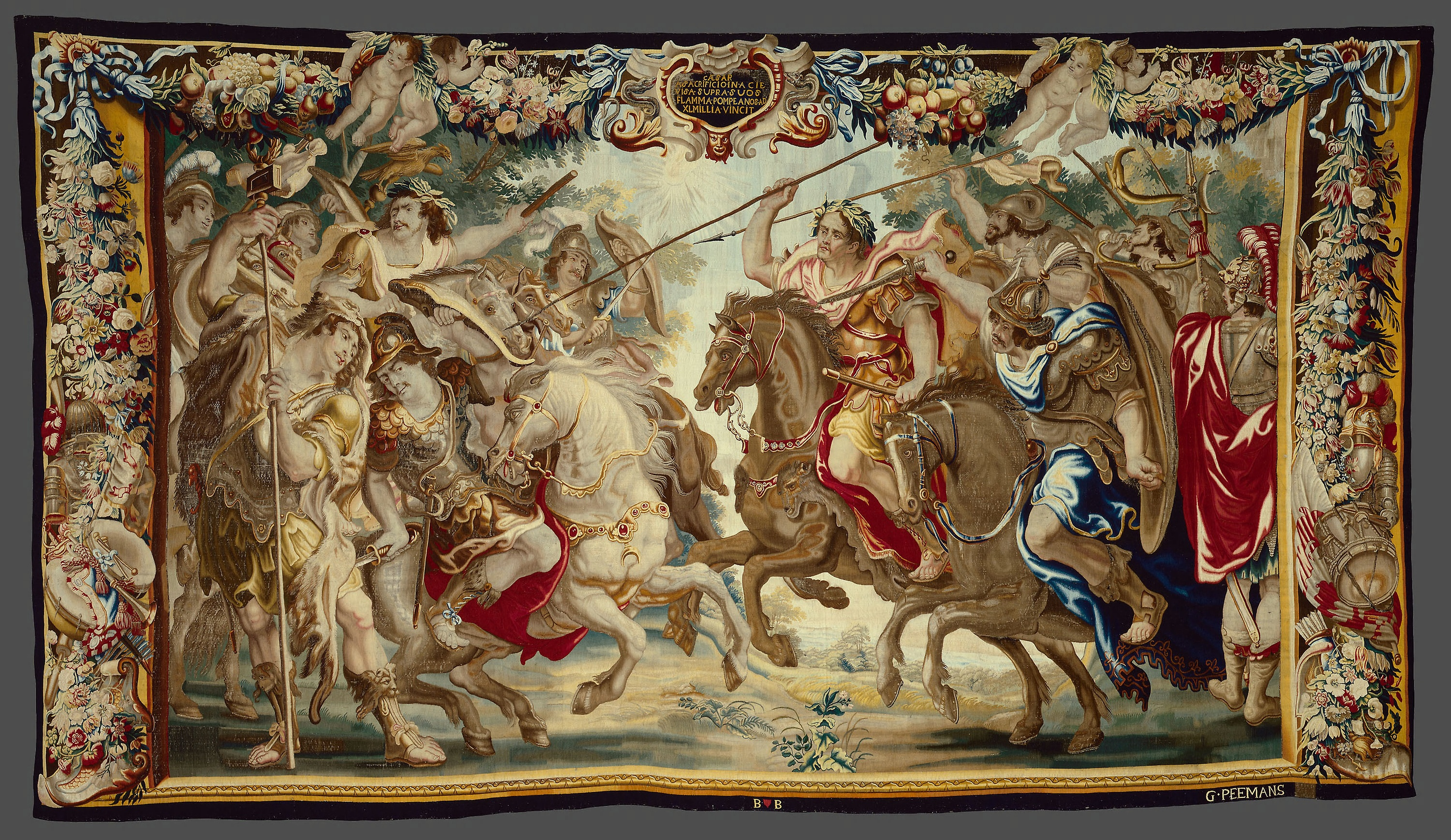 Caesar Defeats the Troops of Pompey from The Story of Caesar and Cleopatra by Justus van Egmont